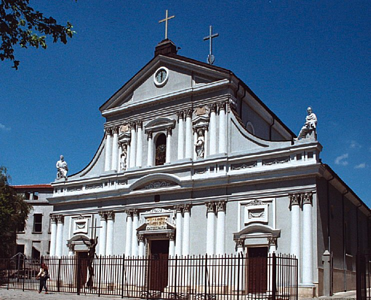 The catholic catedral in Plovdiv, Bulgaria